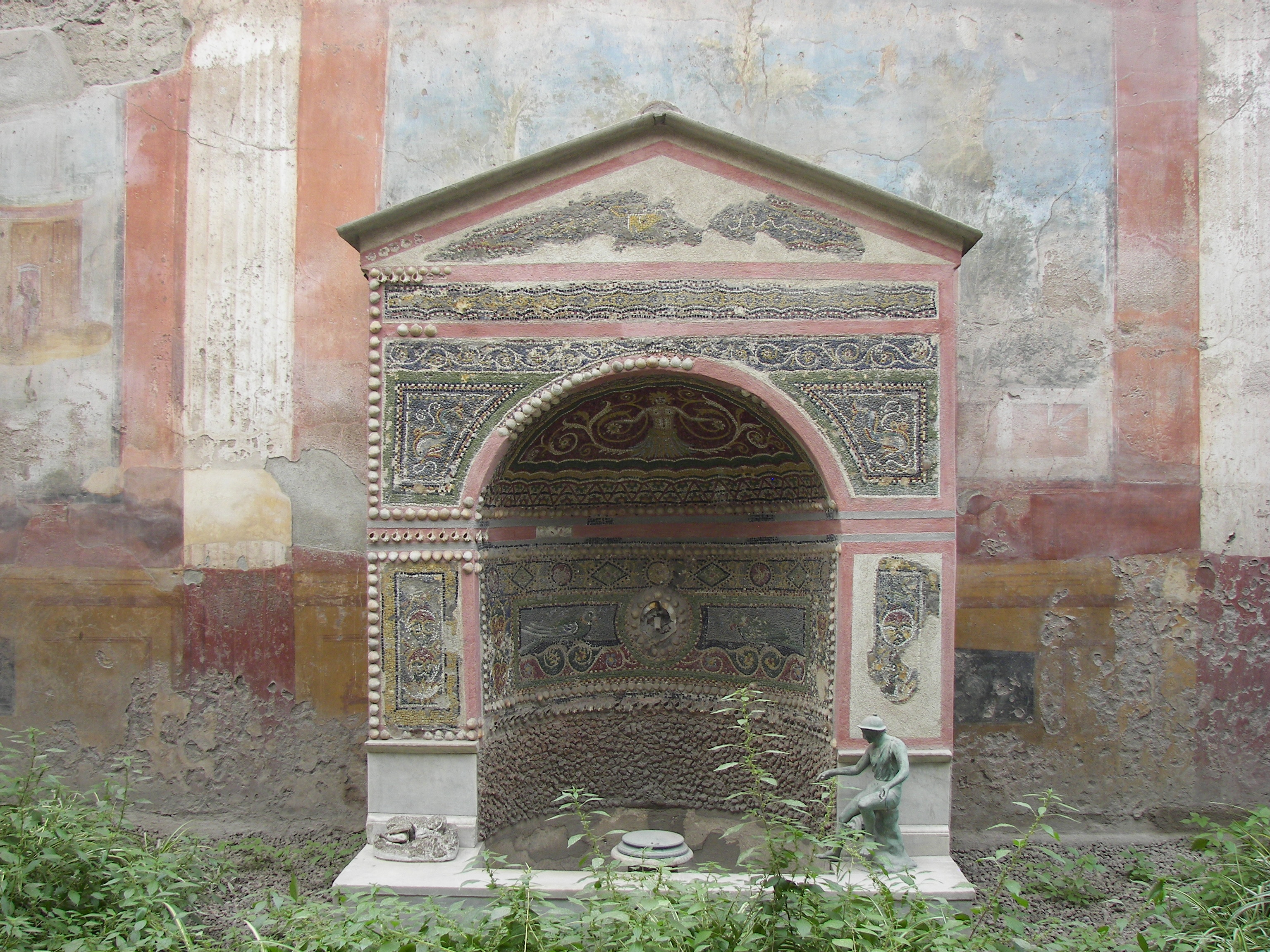 Fountain in the House of the Small Fountain in Pompeii.